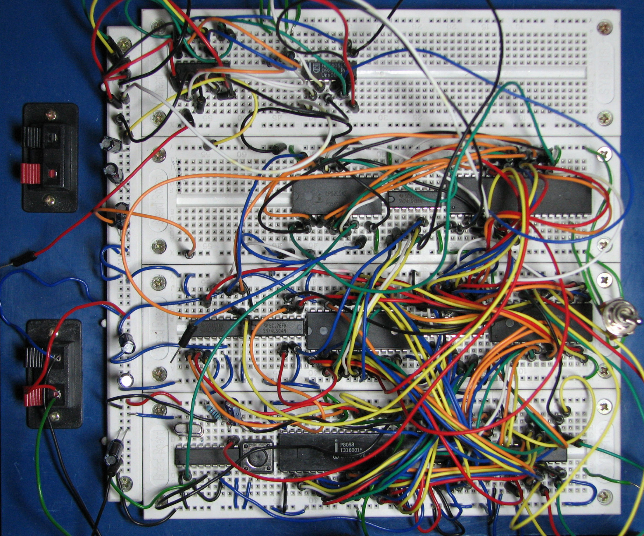 This photo is of an Intel 8088-based single board computer constructed on a breadboard. The photo is an example of a complex circuit built on a breadboard. Taken by User Amr using a Canon Powershot S2 IS. Amr 14:15, 7 May 2007 (UTC)